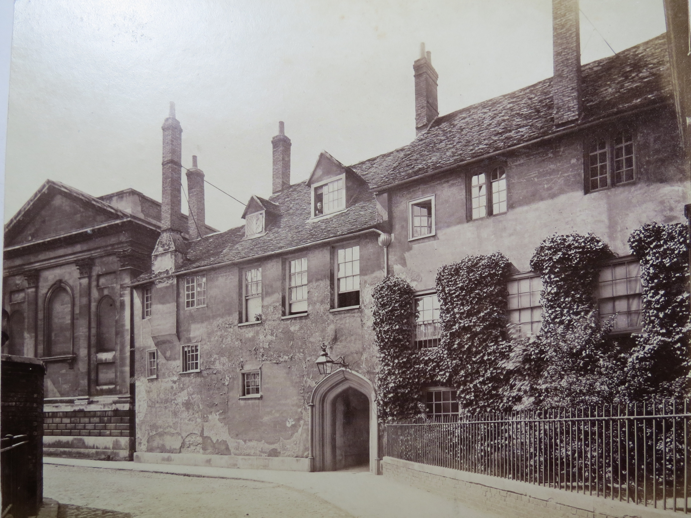 Trinity Hall, Cambridge University. Buildings on Trinity Lane, adjacent to Clare College chapel, circa 1870. Image taken from original albumen print from a bound album of 58 Cambridge University photographs. Original 19th century album in the possession of Kimberly Blaker, New Boston Fine and Rare Books See also File:Trinity Hall Chapel, Cambridge University.jpg for view of these buildings from inside Trinity Hall, and File:Cambridge University, Trinity Hall Demolished.jpg, showing their demolition. The range was rebuilt by Alfred Waterhouse in 1872-3.